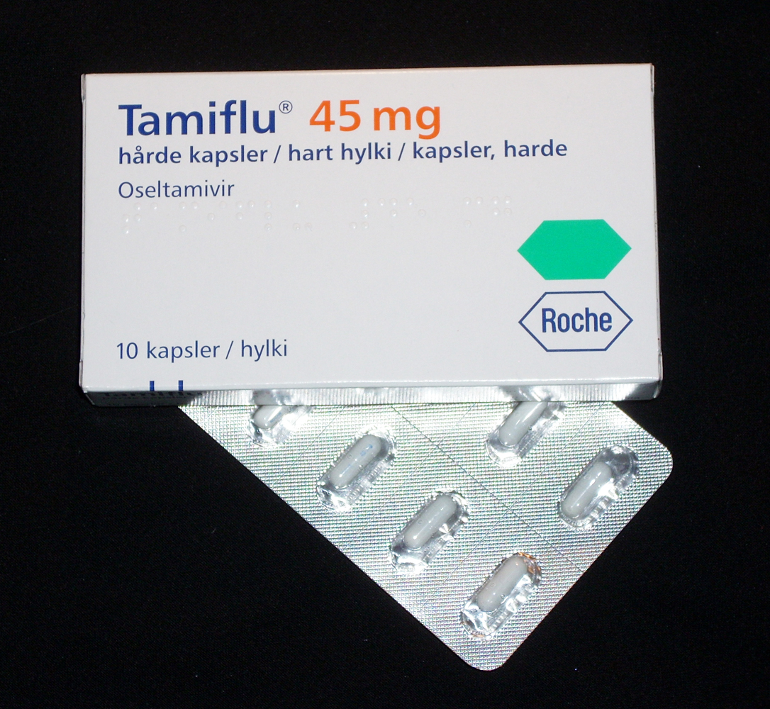 Norwegian/Danish package of Tamiflu